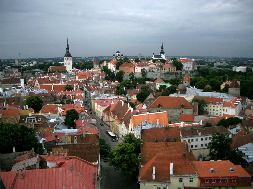 View from St Olav